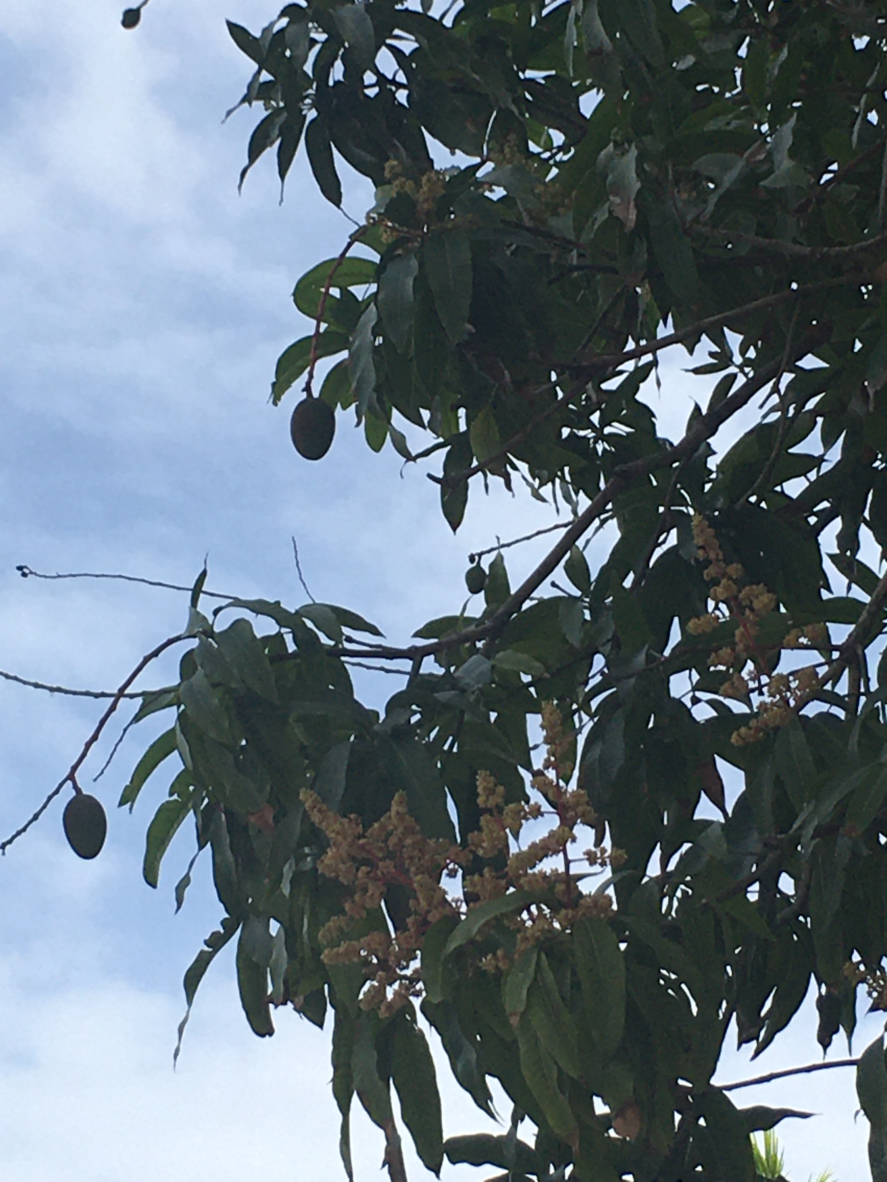 Some flowering and fruiting branches of a Mangifera indica, located in Hallandale Beach, Florida